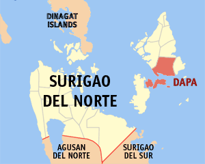 Map of the Surigao del Norte showing the location of Dapa